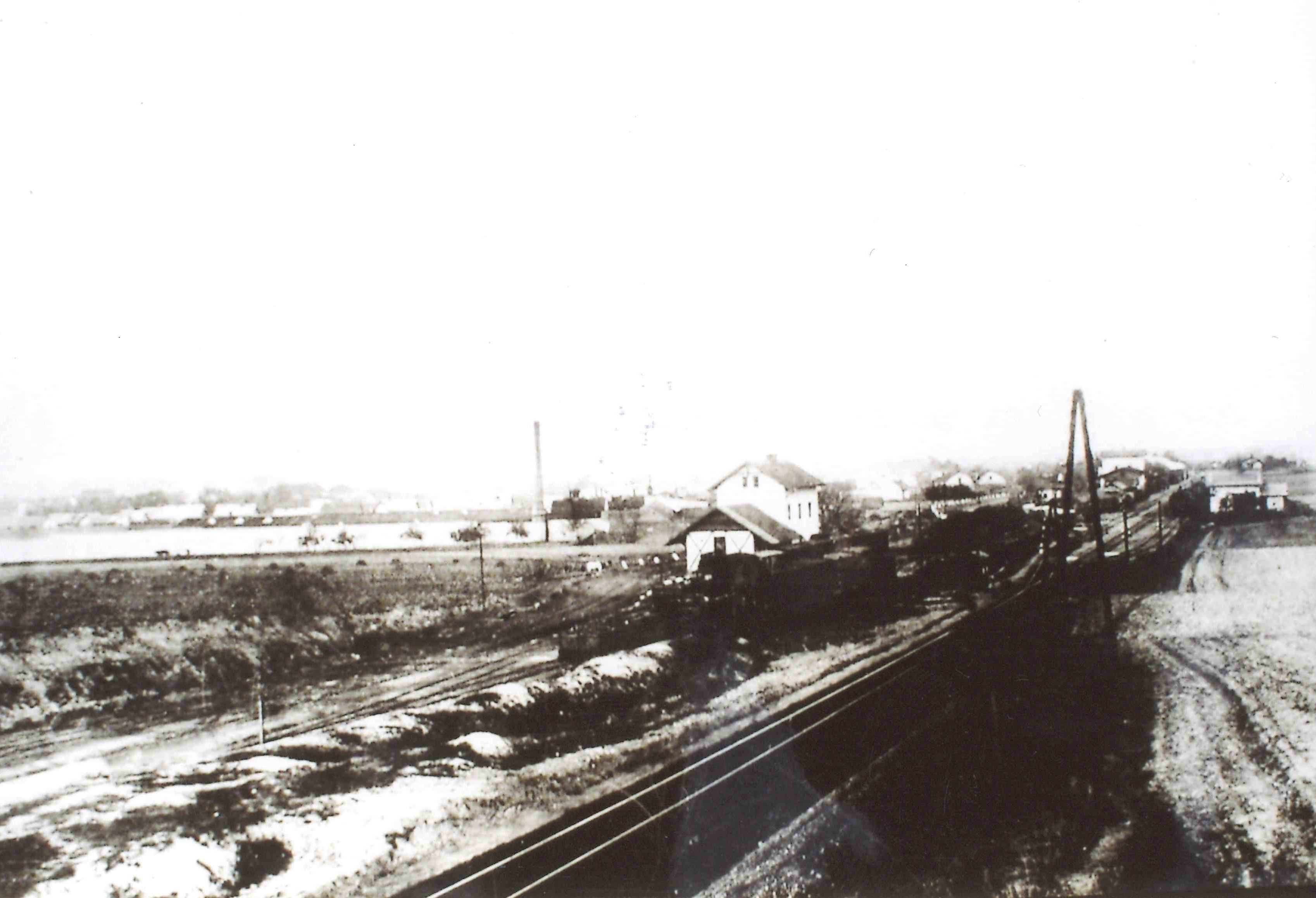 station Celakovice